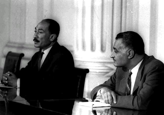 Speaker of National Assembly Anwar Sadat (left) and President Gamal Abdel Nasser (right) at the National Assembly